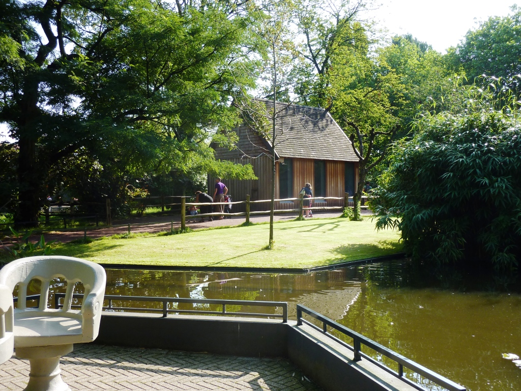 Lemurenland with ring-tailed lemurs and red ruffed lemurs.